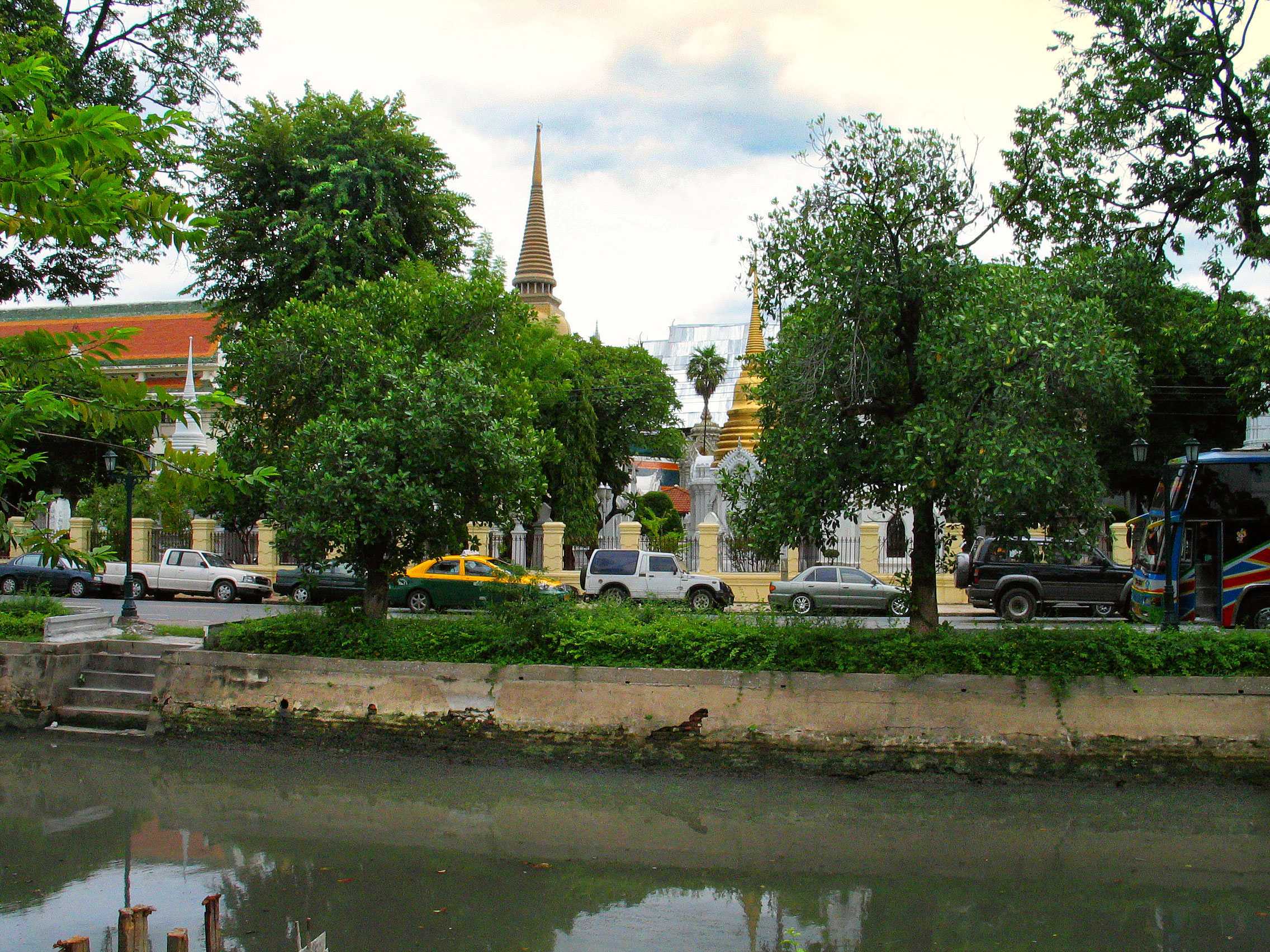 View of Wat Rajabophit from Khlong Lord, Phra Nakhon district, Bangkok Thailand